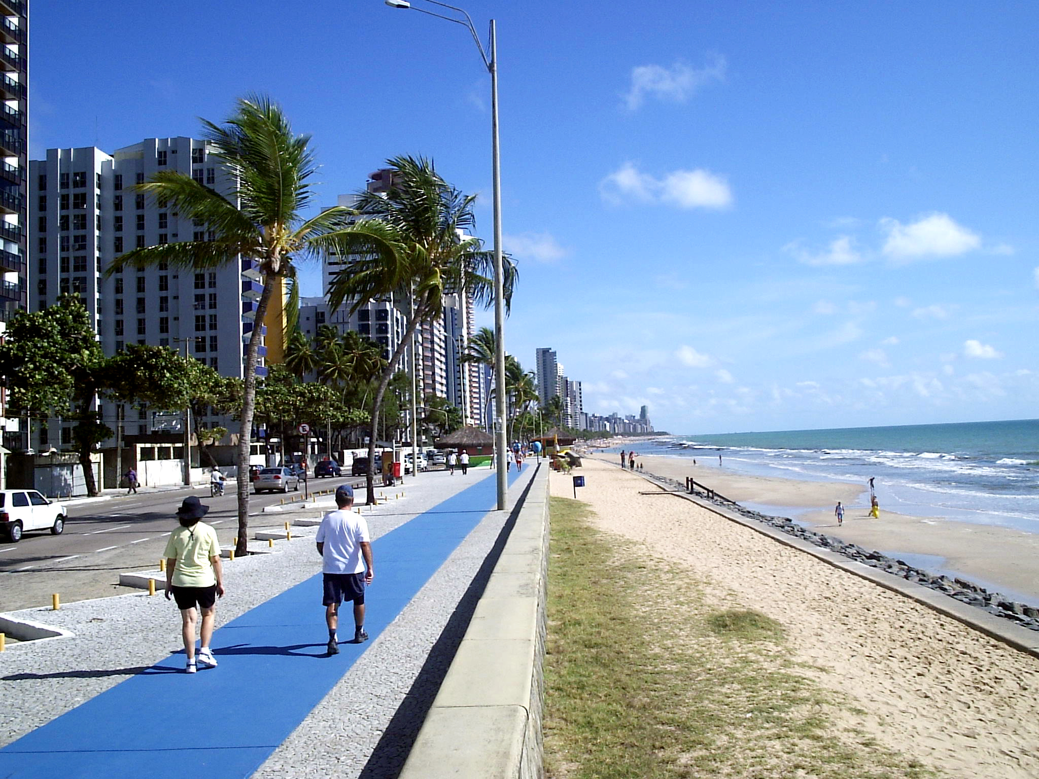 The Beachline of Boa Viagem, Recife, PE, Brazil.